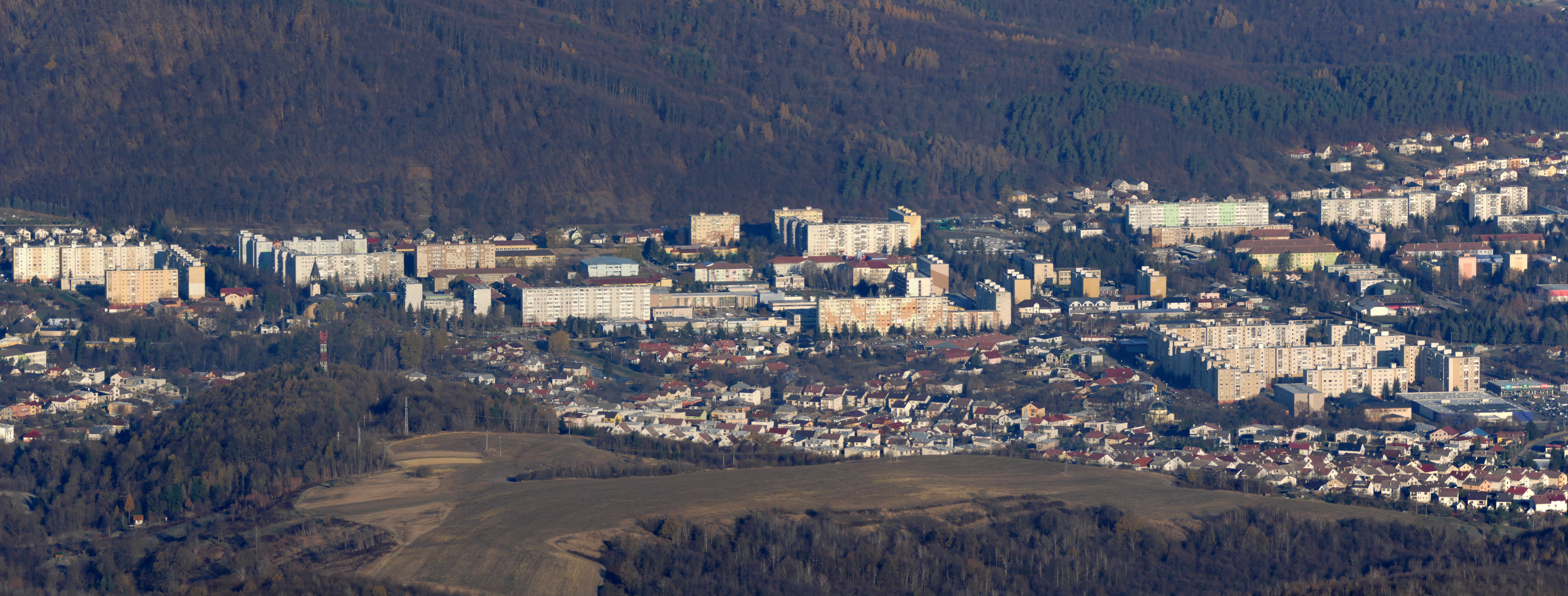 Panorama of Snina, view from Sninský kameň